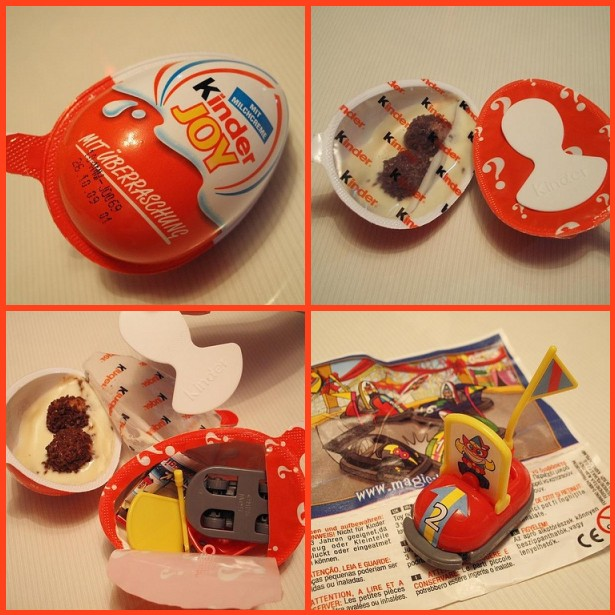 Image of Kinder Joy showing the packaging, interior, toy and instructions.